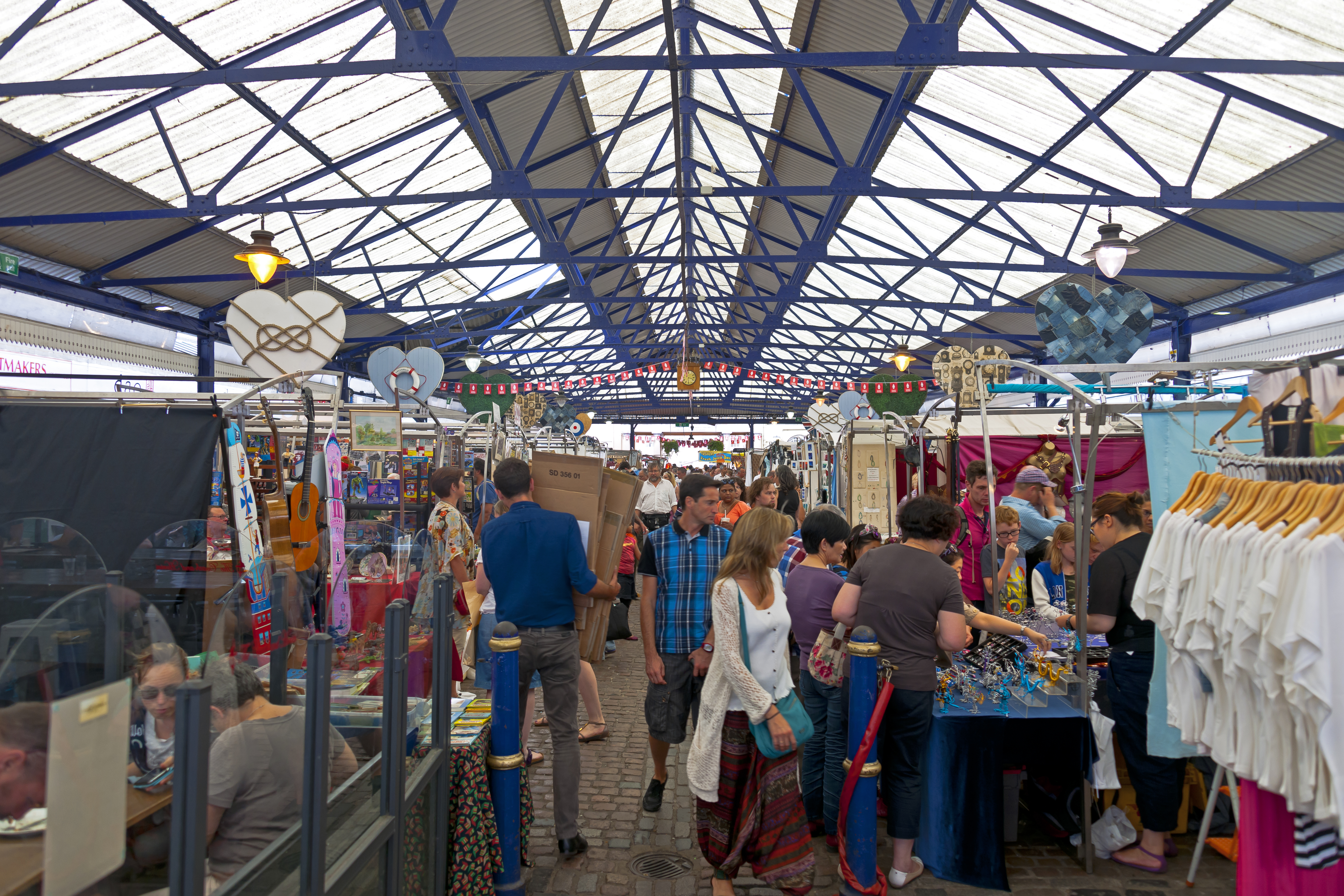 Interior of one of Greenwich Market buildings.